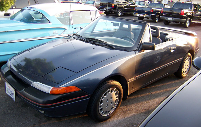 3rd Generation Mercury Capri (XR2 Turbo) photographed in USA.